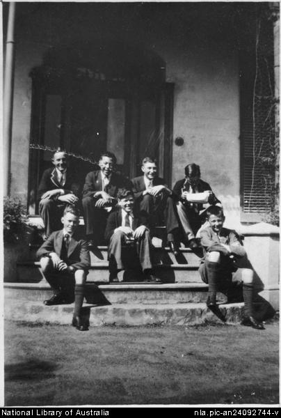 Students and building of St Gregory's College, Campbelltown circa 1932.